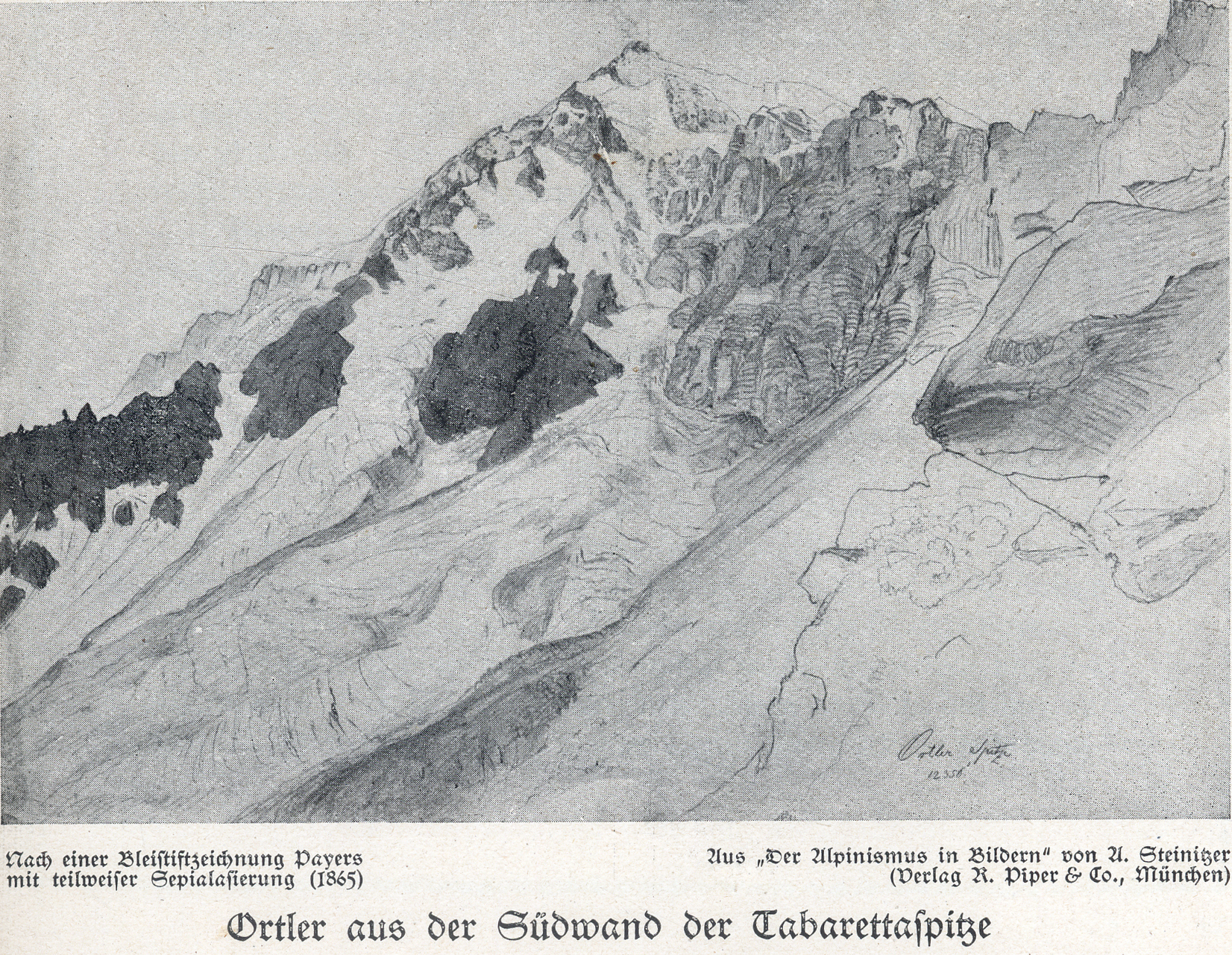 Ortler North face by Julius Payer